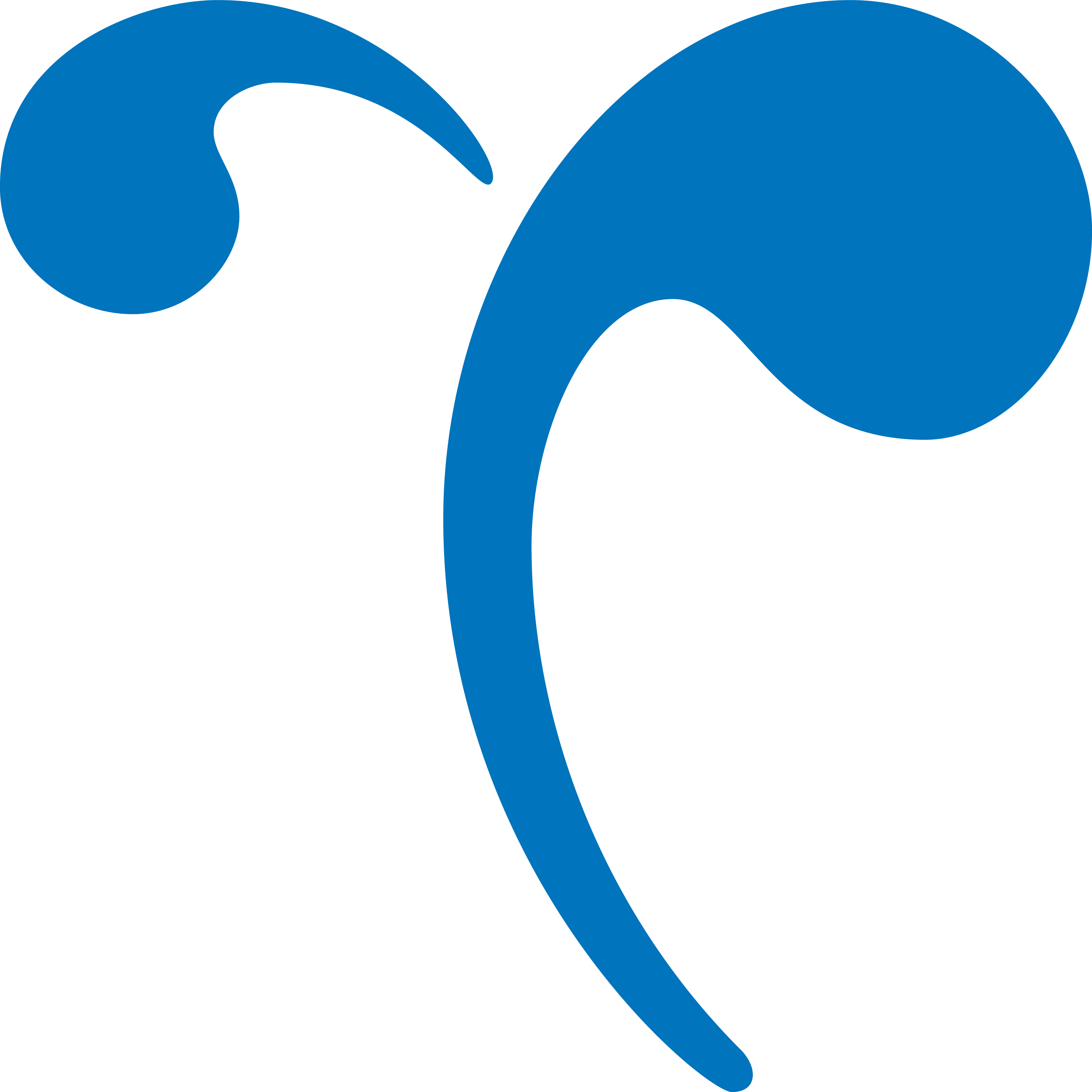 Official Logo of The Student Life newspaper